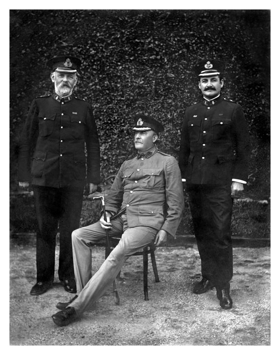 Queensland Police Force Commissioner and two officers. (Uniforrmed officers)